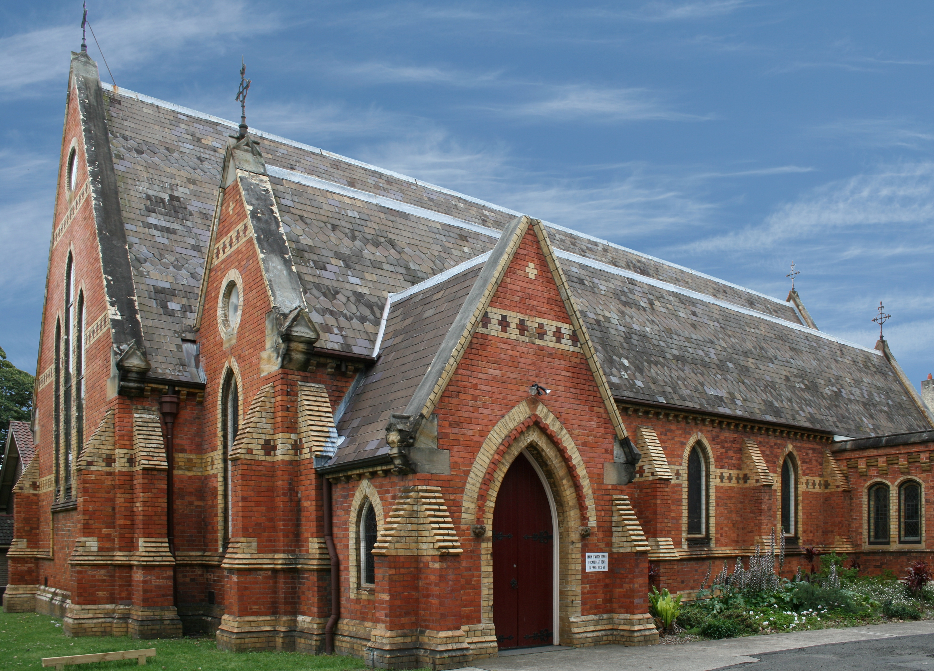 Corner view of All Saint's Anglican Church, Petersham, New South Wales (NSW), Australia.